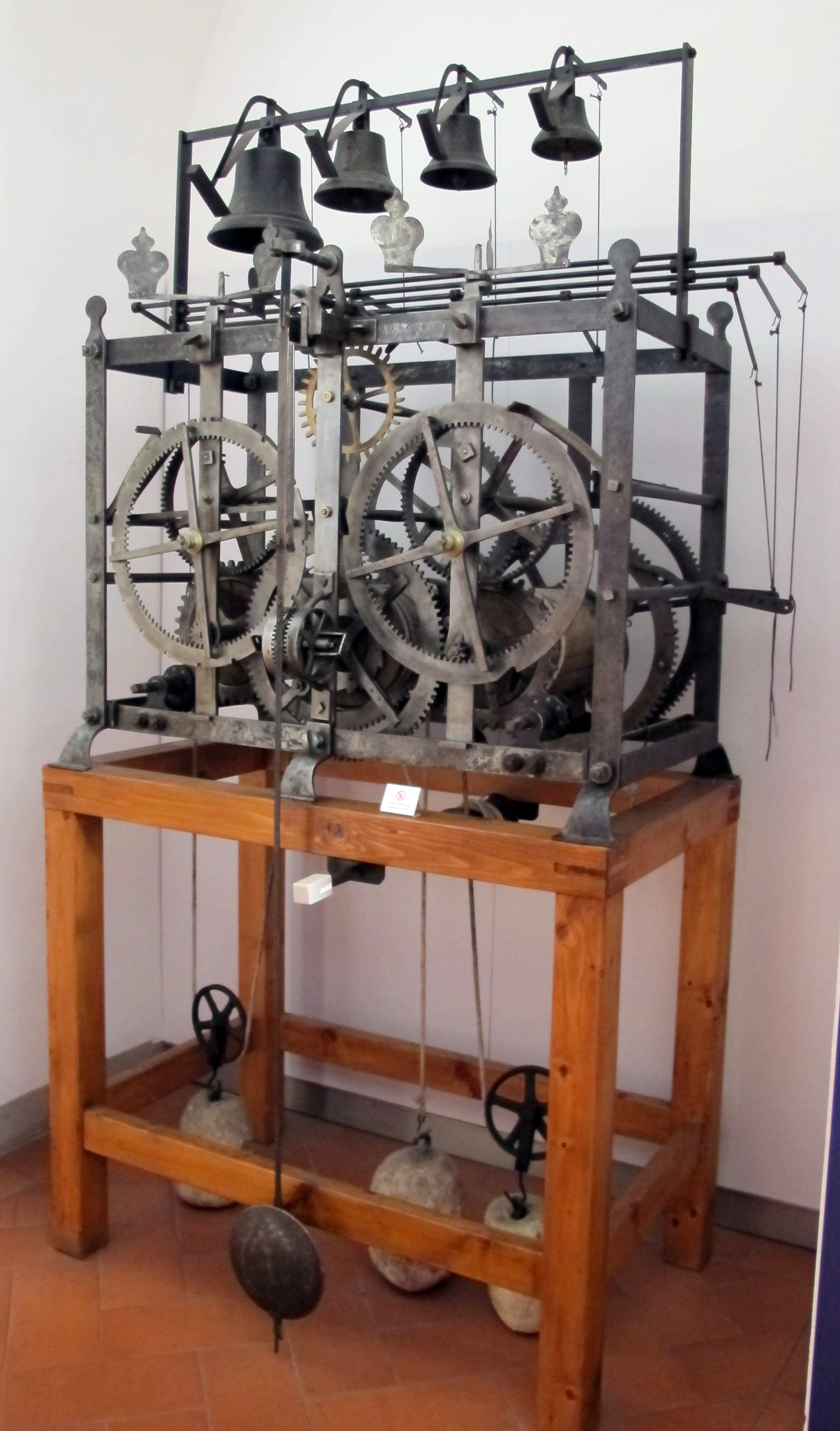 Turret clock.